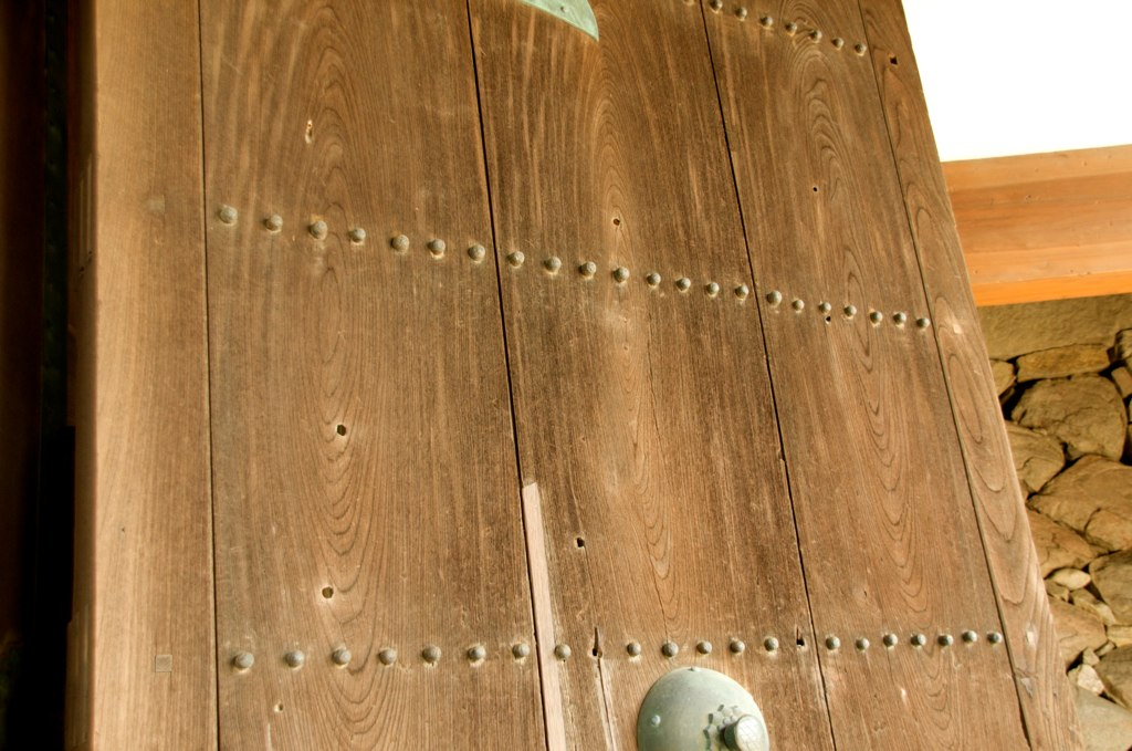 Bullet holes for Saga Rebellion(1874), on Shachinomon Gate doors of Saga Castle.